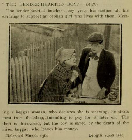 Robert Harron and Gertrude Norman in The Tender Hearted Boy, released in 1913